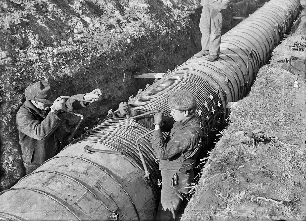 Piping of wooden staves in the North of the United States.